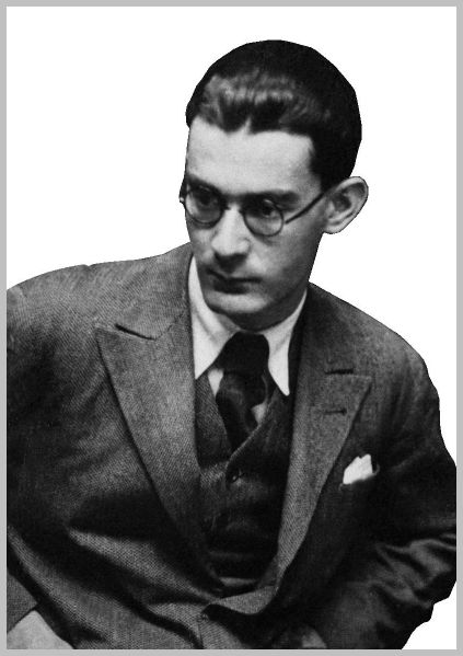 Béla Reitzer (1911-1942) sociologist